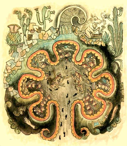 Chicomoztoc — the place of the seven caves. The mythical origin of the "nahuatlaca" tribes. From the "Historia Tolteca chicimeca". A postcortesian codex from 1550, written by the people of Cuauhtinchan (of Chichimeca ancestry) to sustain their right to their lands, under the Spanish Colonial authorities. They wrote their history from A.D. 116 through 1544, using a mixture of European and prehispanic styles.